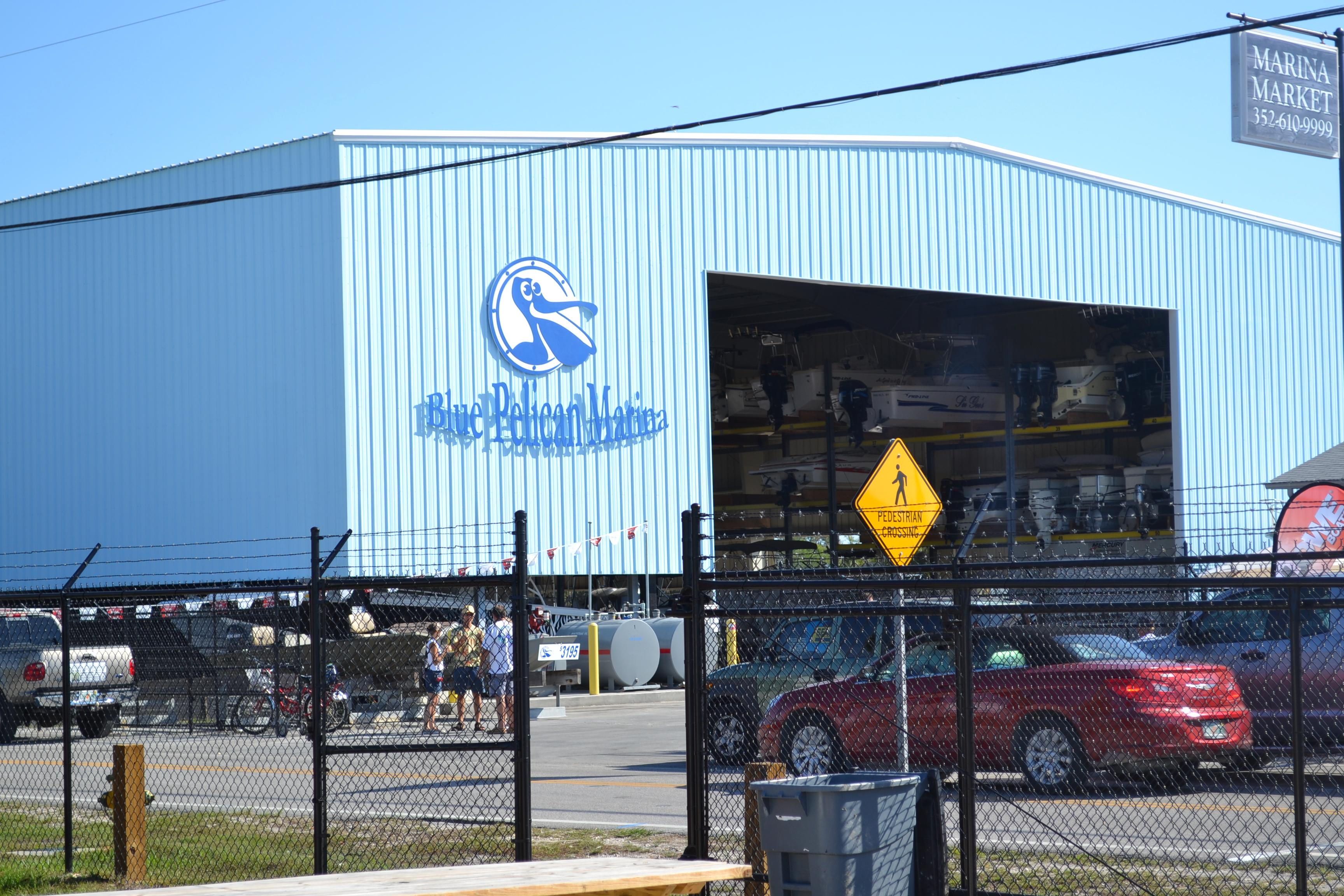 One of Hernando Beach's most accessible Dry Boat Storage.